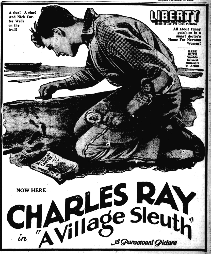 Newspaper advertisement for the American film The Village Sleuth (1920).